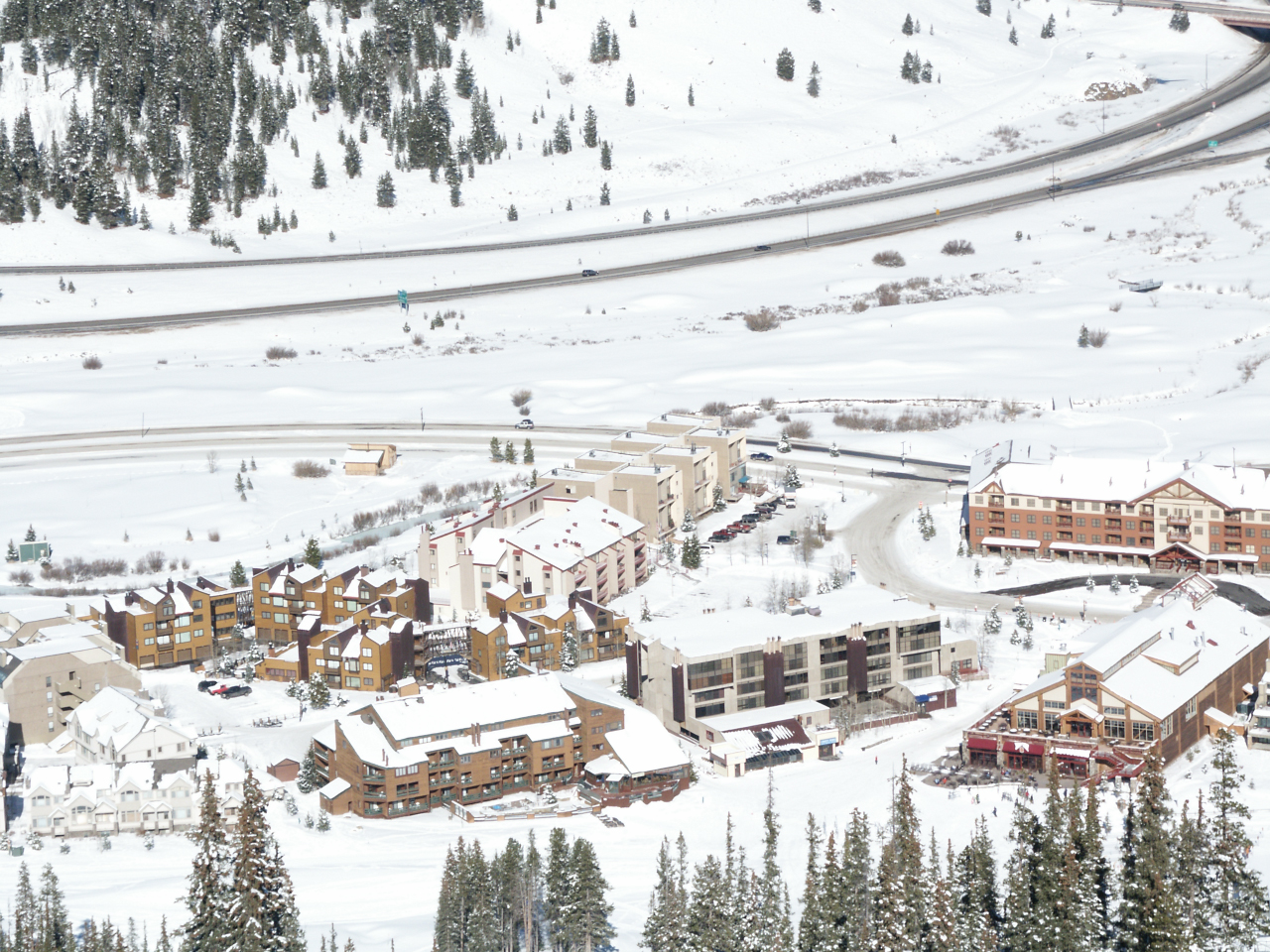 The East Village at Copper Mountain, Colorado.